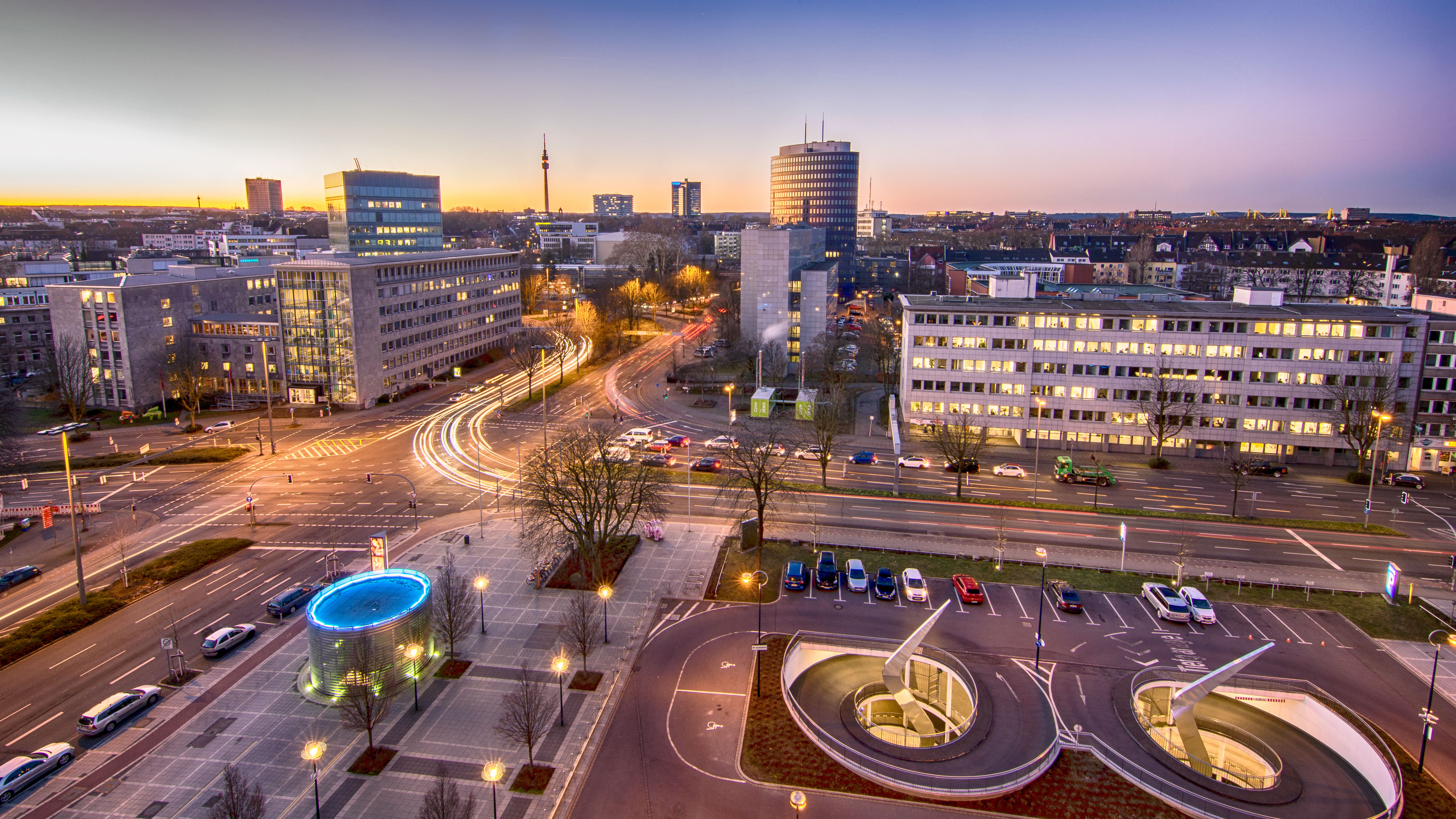 City Center Dortmund, Central business district "Ruhrallee"